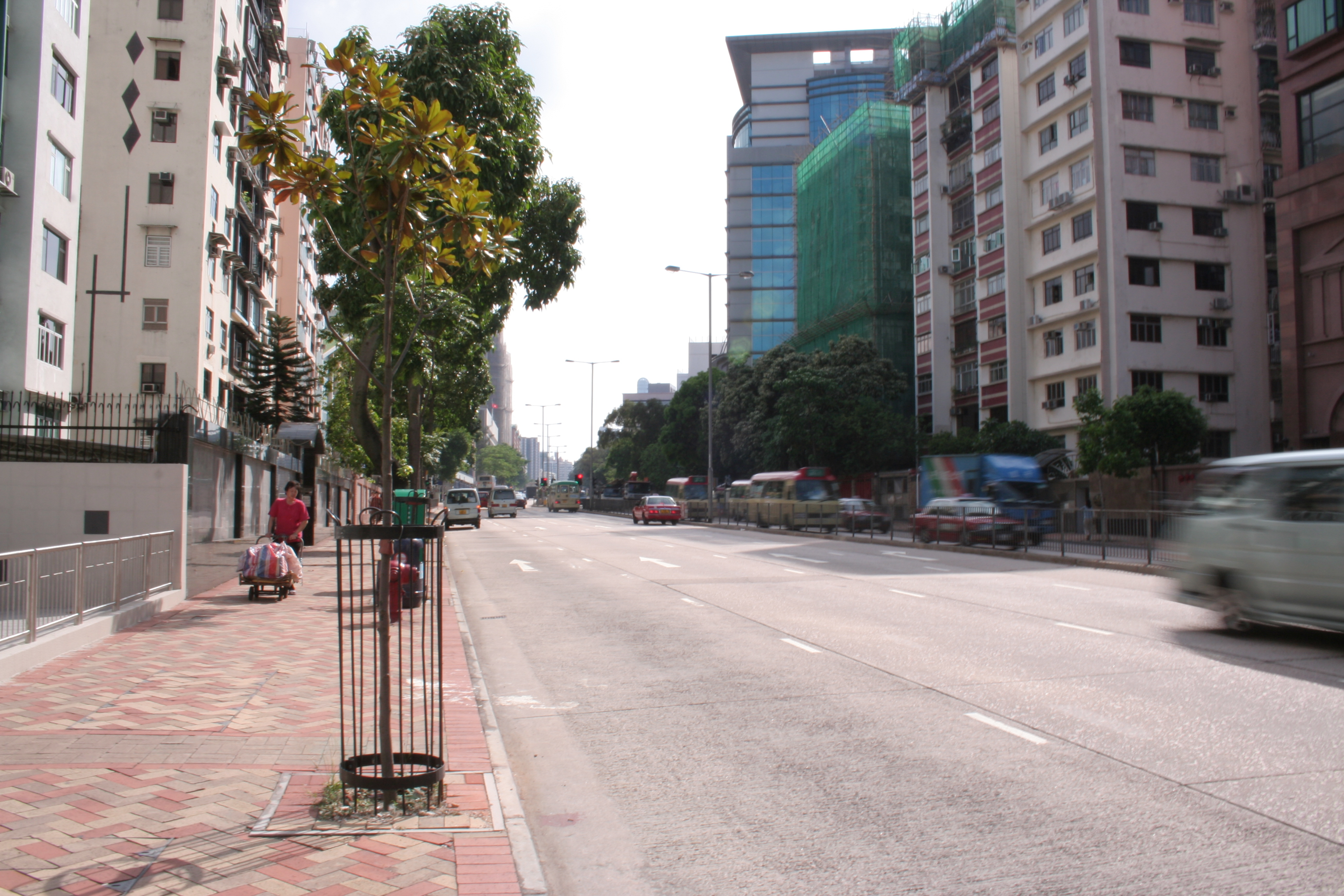 A view of Argyle Street. Taken by Linus Lee (Hk_linus) in May 2006.